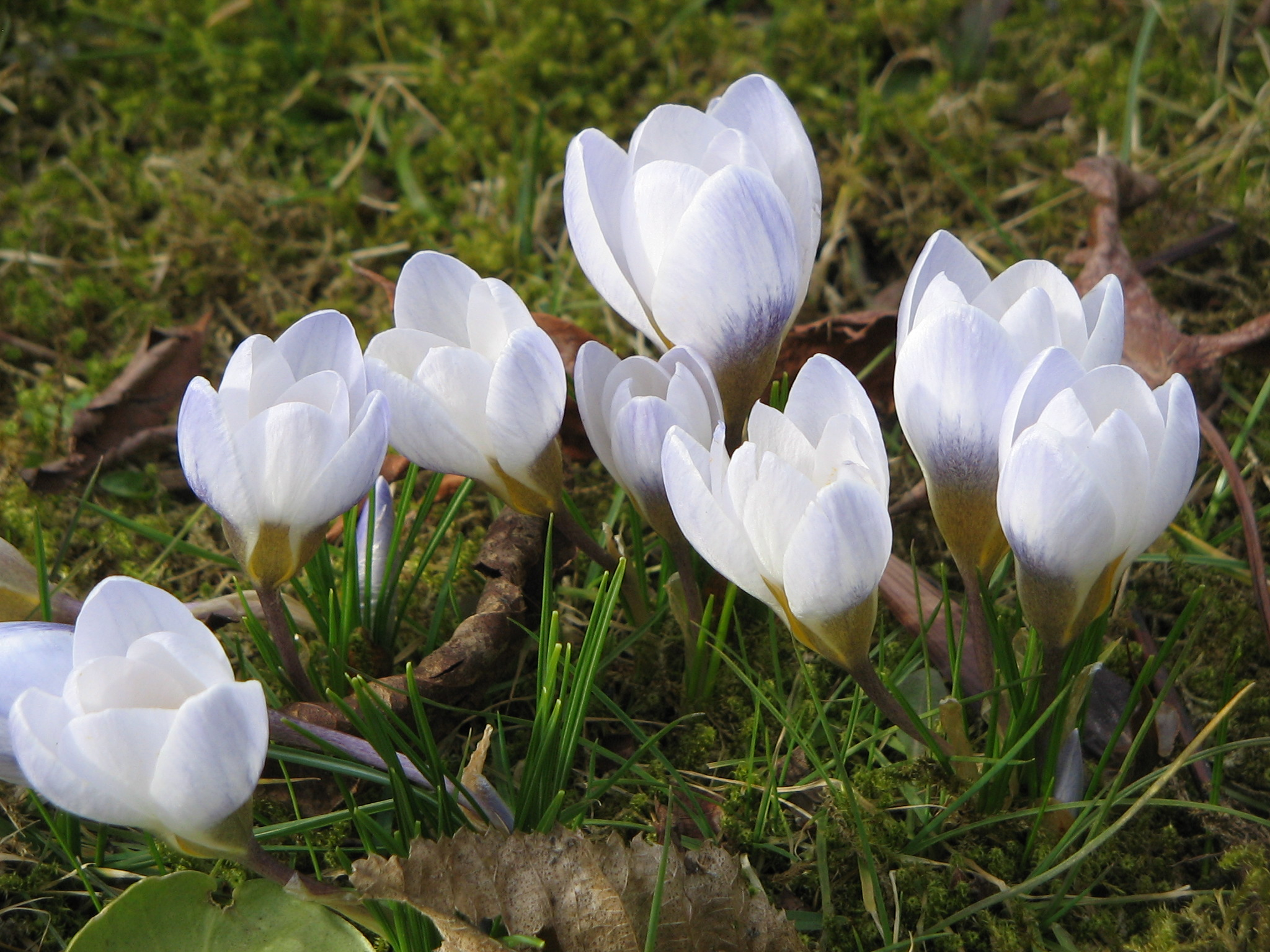 Crocus 'Blue Pearl'